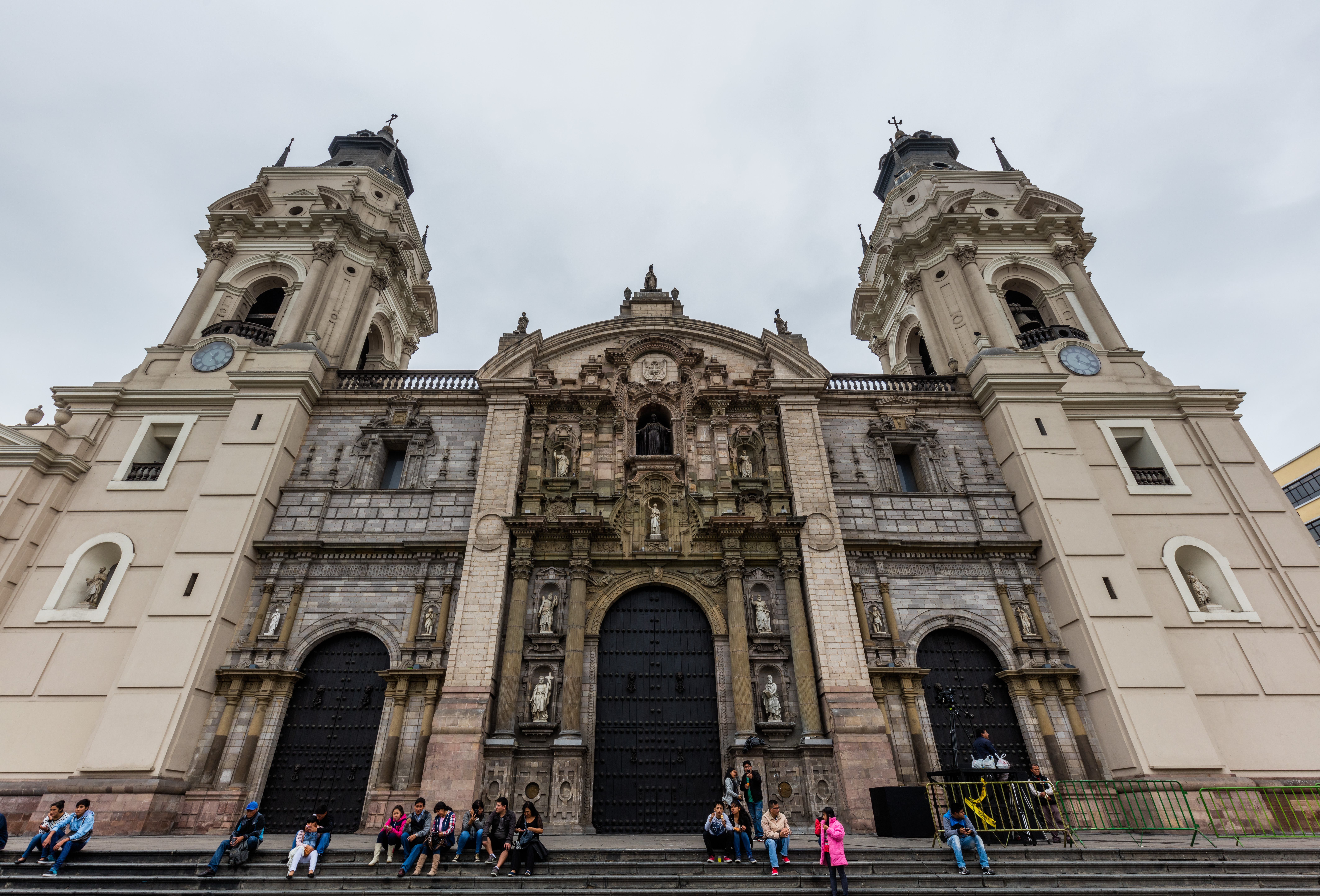 Lima Cathedral, Peru